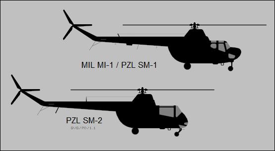 Side-view silhouettes of the Mil Mi-1 (PZL SM-1) and PZL SM-2